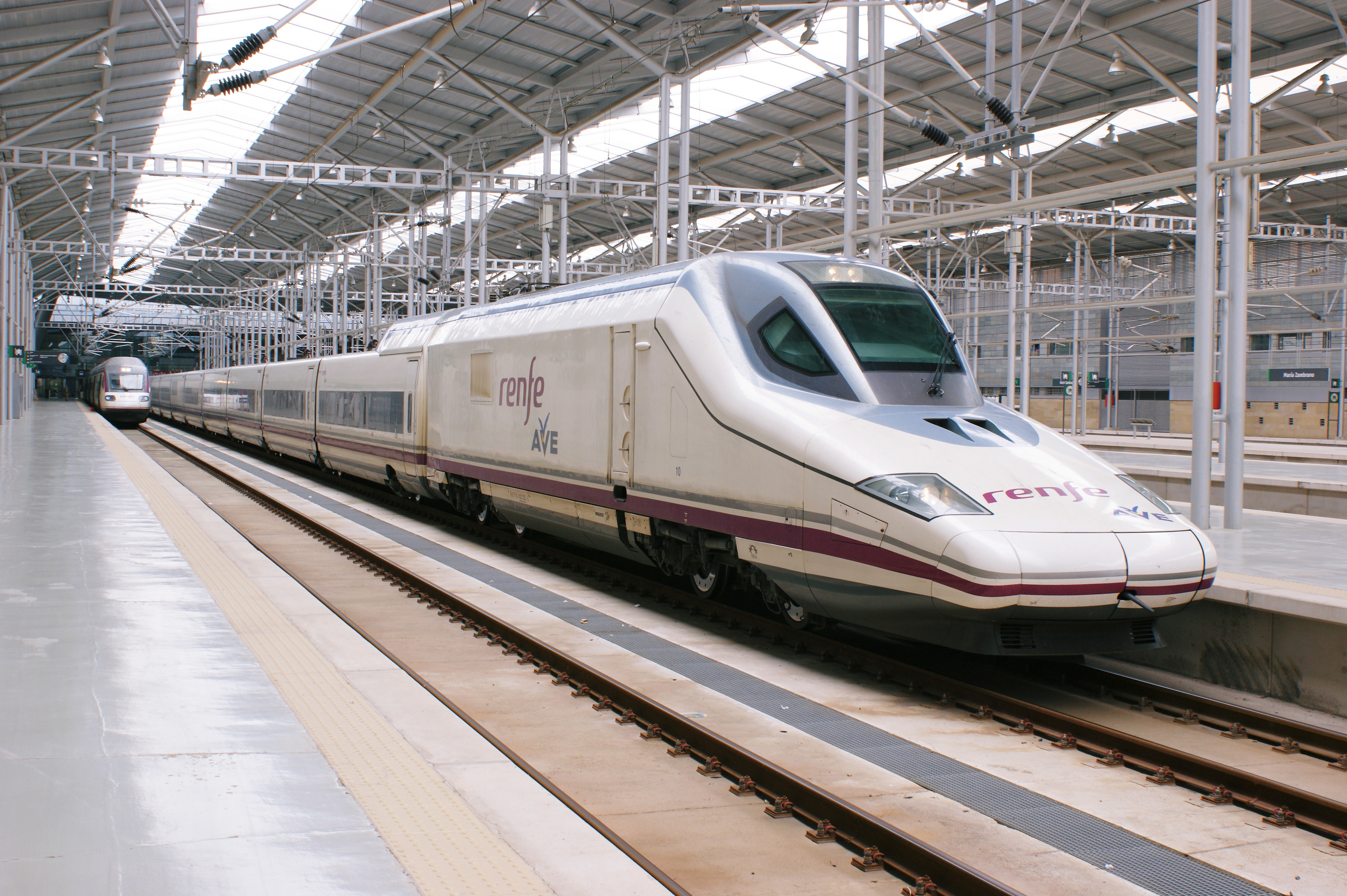 Bombardier S-102 Talgo AVE high speed train at Malaga, 4/10.